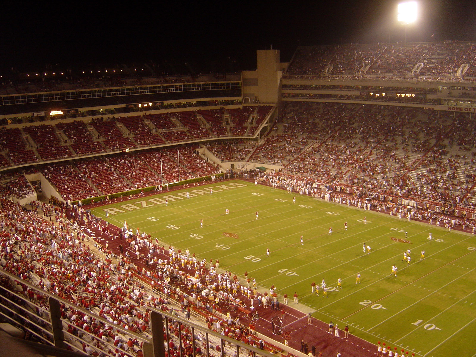 Garbage time during the waning minutes of the September 2, 2006 game between the USC Trojans and Arkansas Razorbacks: although Donald W. Reynolds Razorback Stadium featured the largest crowd ever in attendance (76,500), the stadium emptied out to the point that you see this photo from the 4th quarter, with USC up 50-14 (the eventual final score). Photo taken by Bobak Ha'Eri. September 2, 2006. Please observe license and properly cite in use outside Wikipedia.